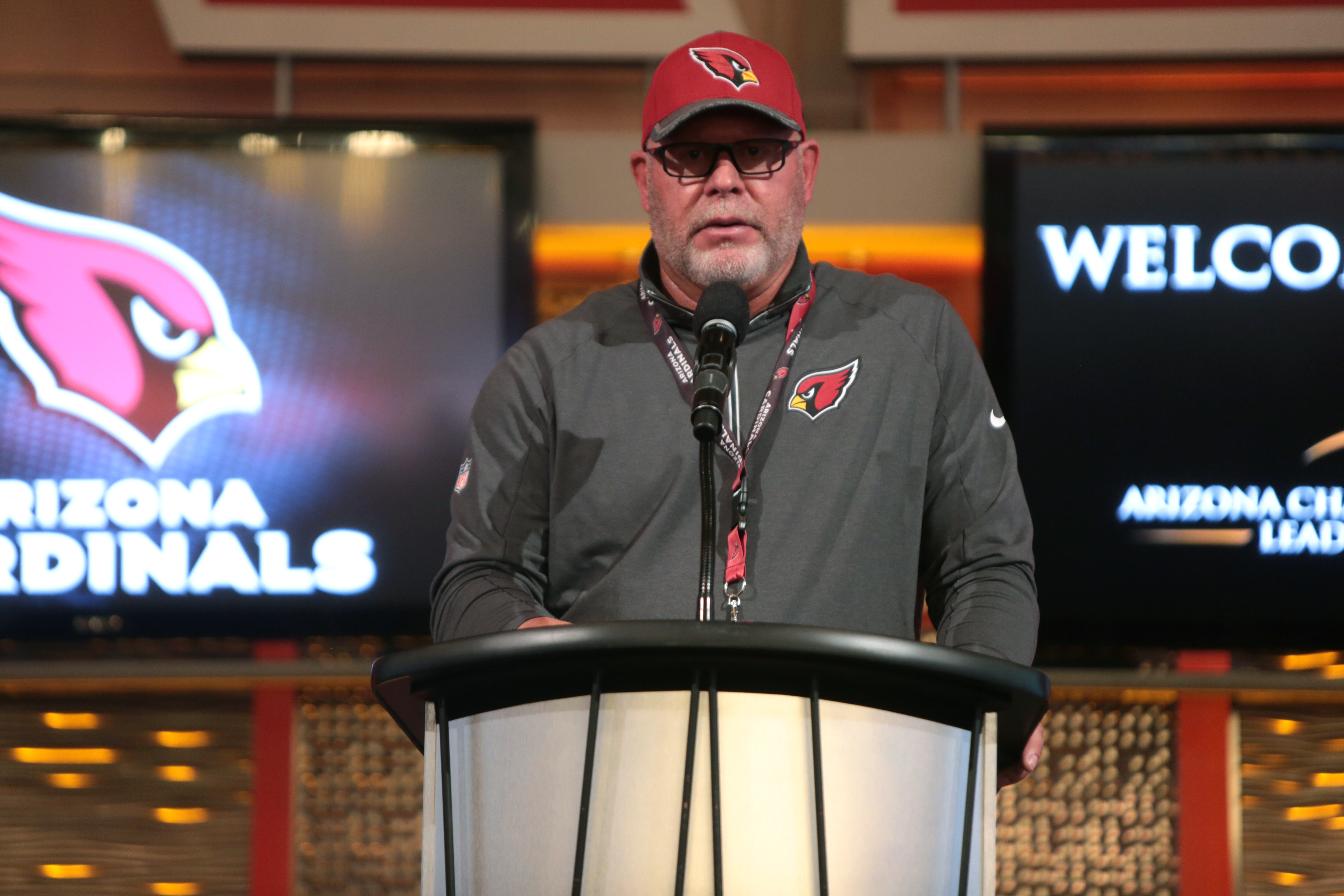 Bruce Arians speaking at the 2016 Leadership Series with the Arizona Cardinals hosted by the Arizona Chamber of Commerce & Industry at University of Phoenix Stadium in Glendale, Arizona.